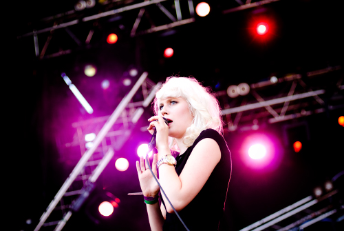 Amanda Jenssen at Helsingborgsfestivalen More pictures at